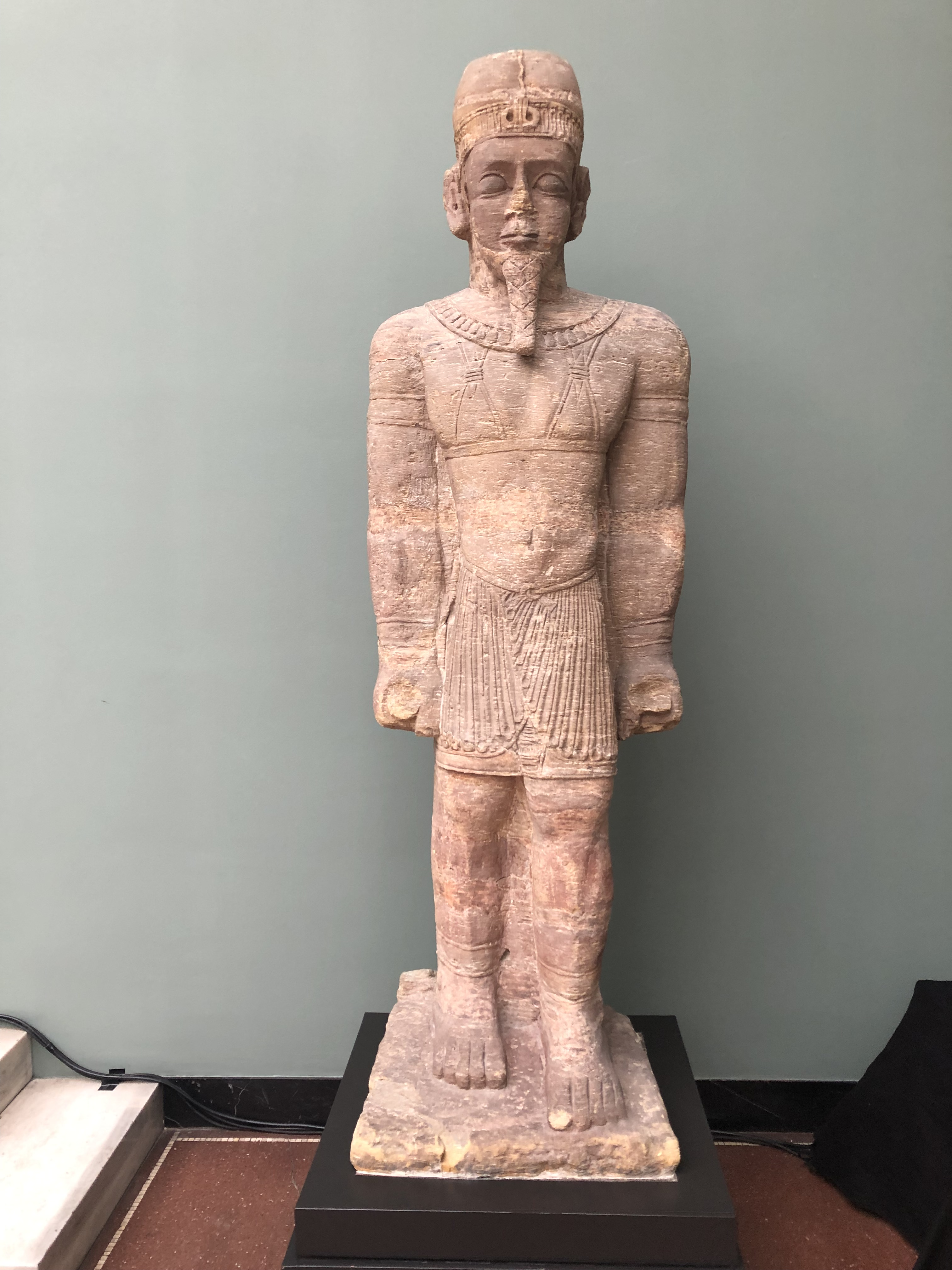 Sebiumeker Eegyptian God in the Carlsberg Museum